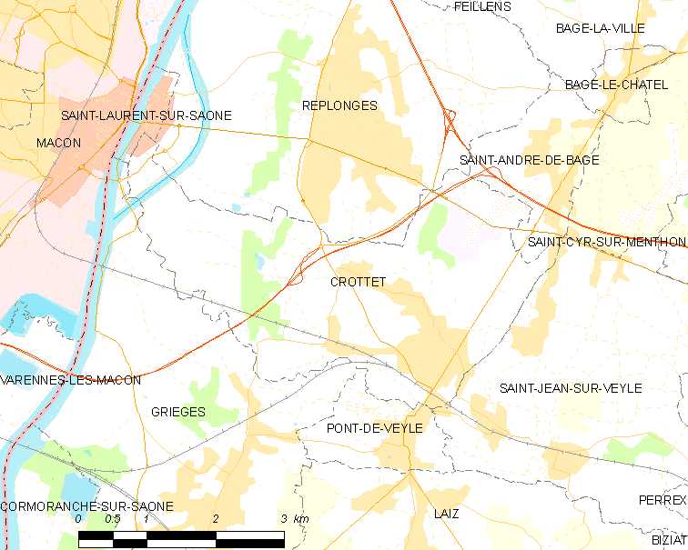 Map of French commune: Crottet Map commune FR insee code 01134.png